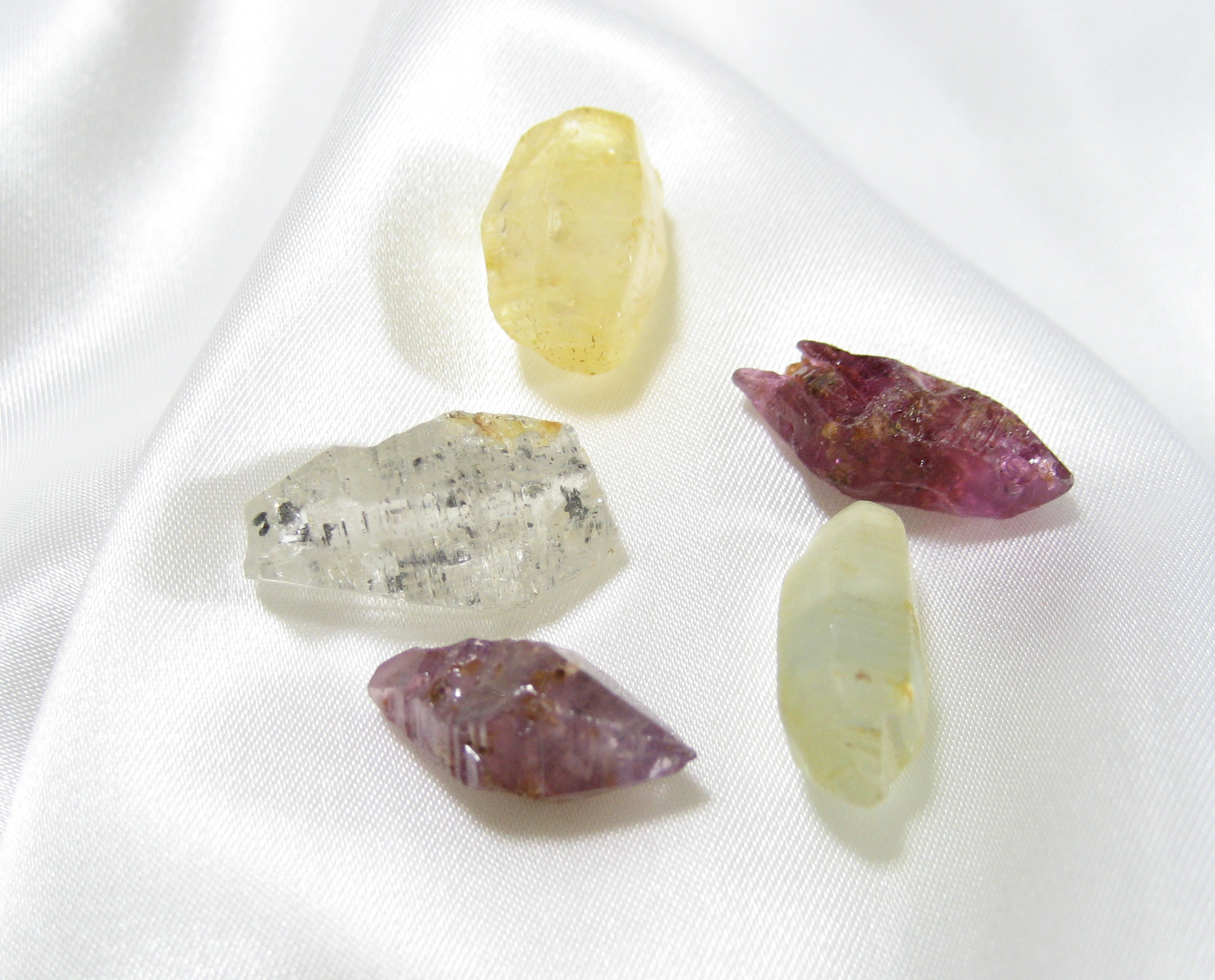 Sapphires (Corundums).